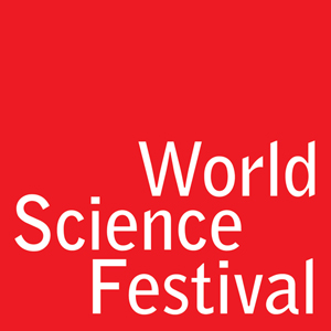 This is the WSF Logo